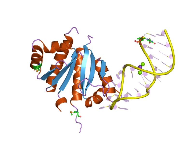 Cartoon representation of the molecular structure of protein registered with 2anr code.